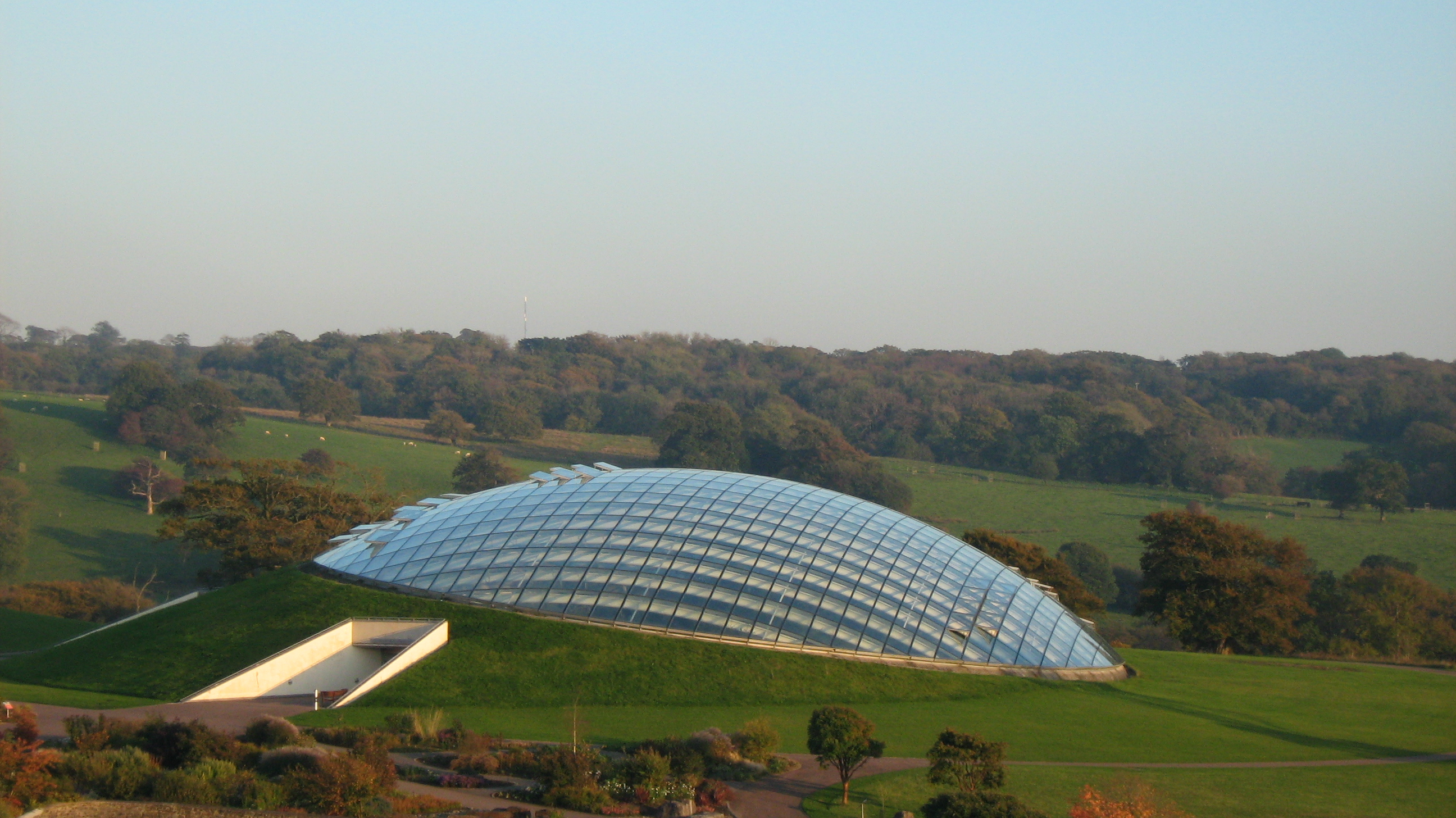 The great glass house at the National Botanic Garden of Wales - designed by Sir Norman Foster.